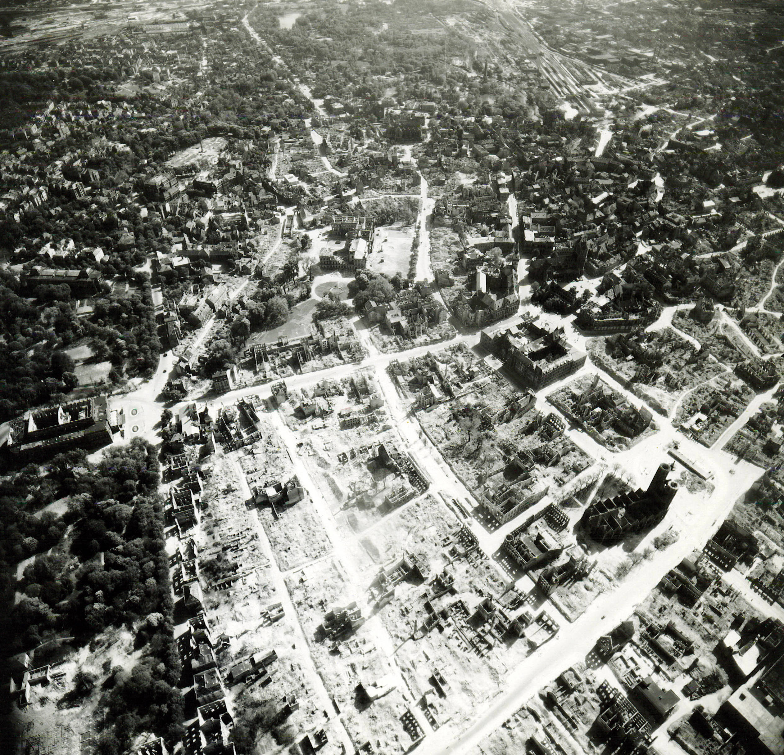 USAAF aerial photograph of Brunswick, Germany, dated May 12, 1945.